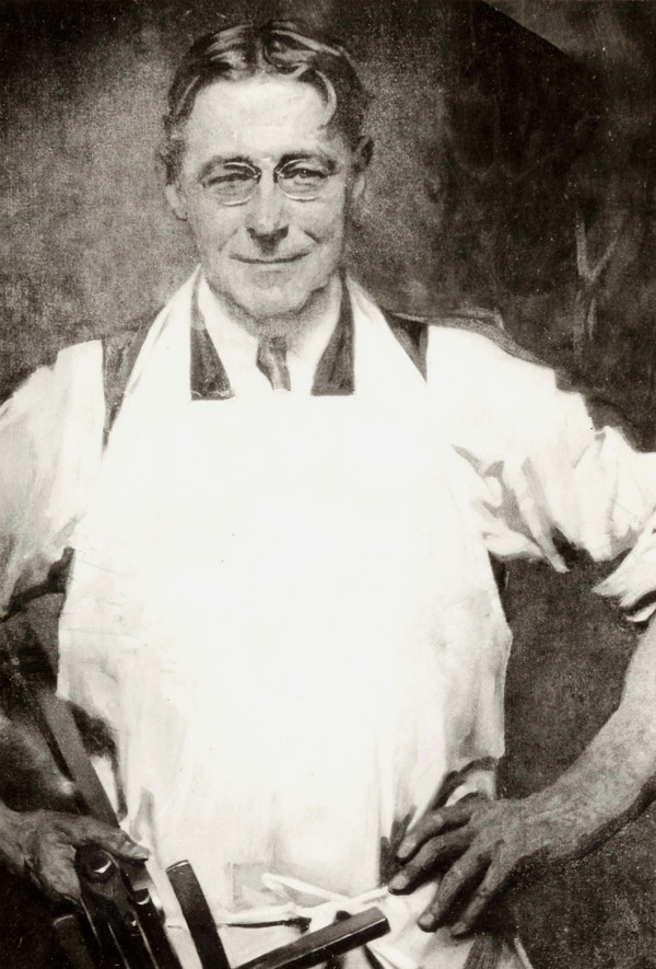 Reginald Hall Sayre (October 15, 1859 – May 29, 1929), son of Lewis Albert Sayre (1820–1900)